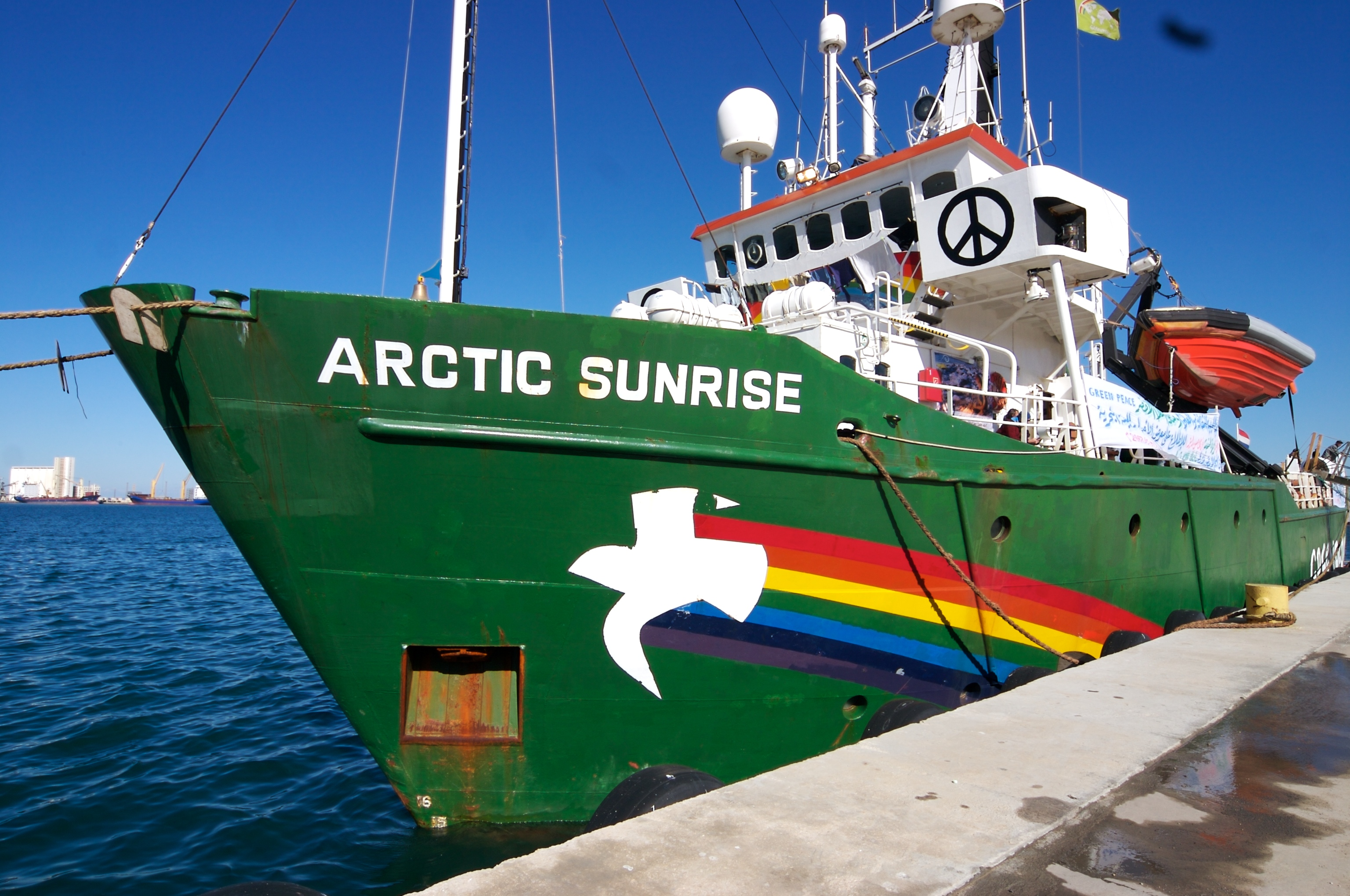 First Greenpeace visit in Libya ever.